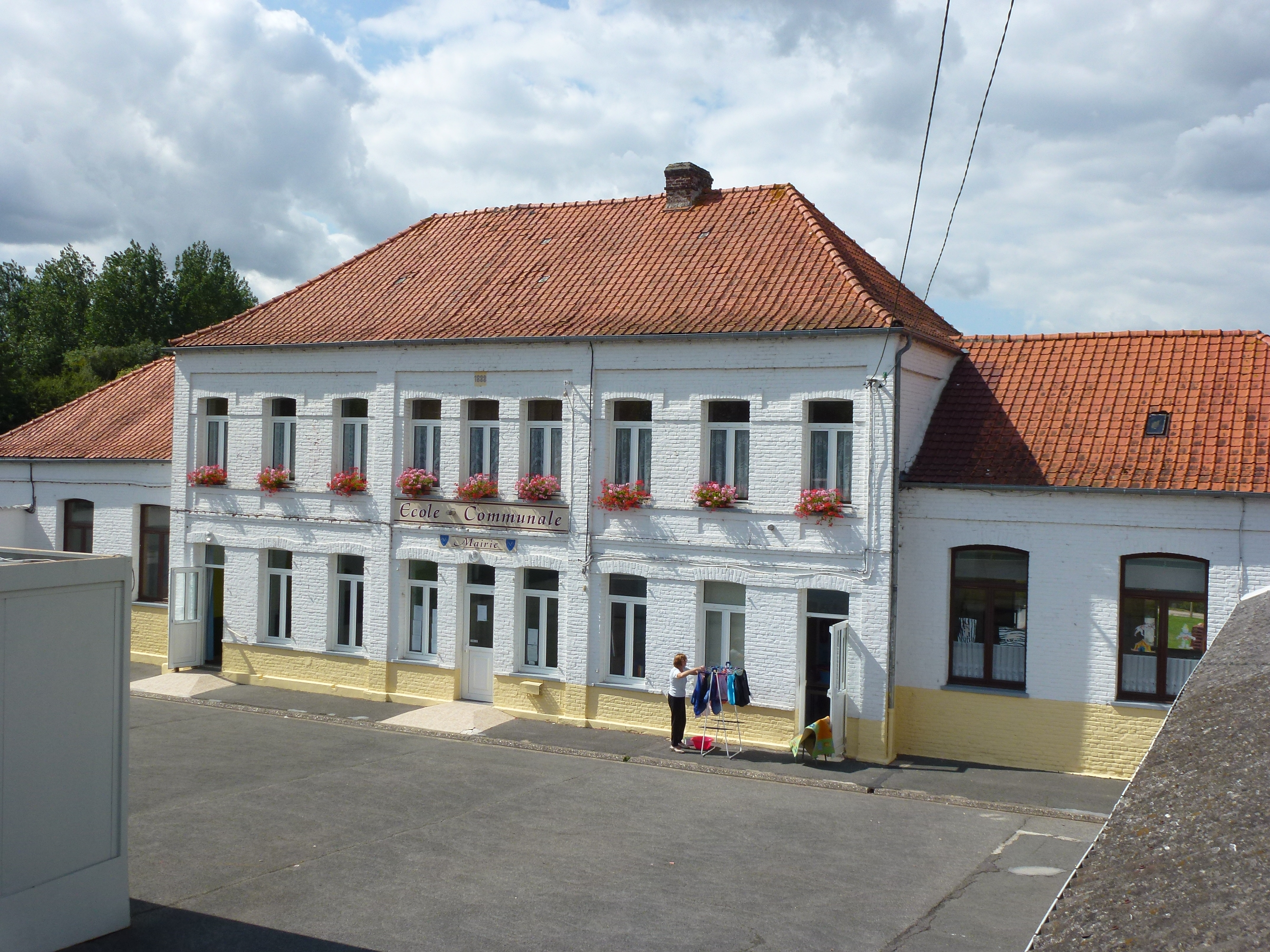 Ouve-Wirquin (Pas-de-Calais) mairie et école